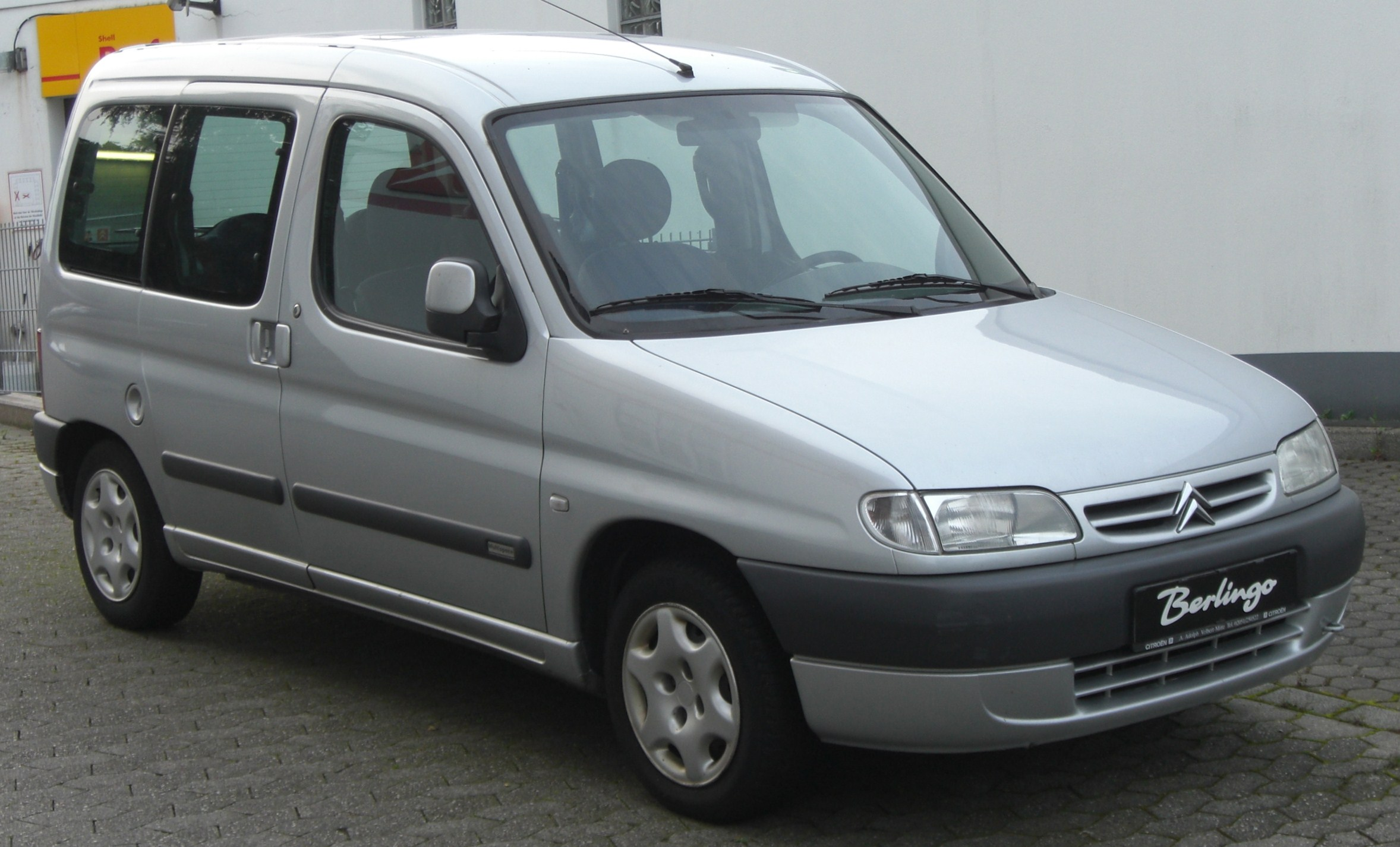 Citroën Berlingo First.